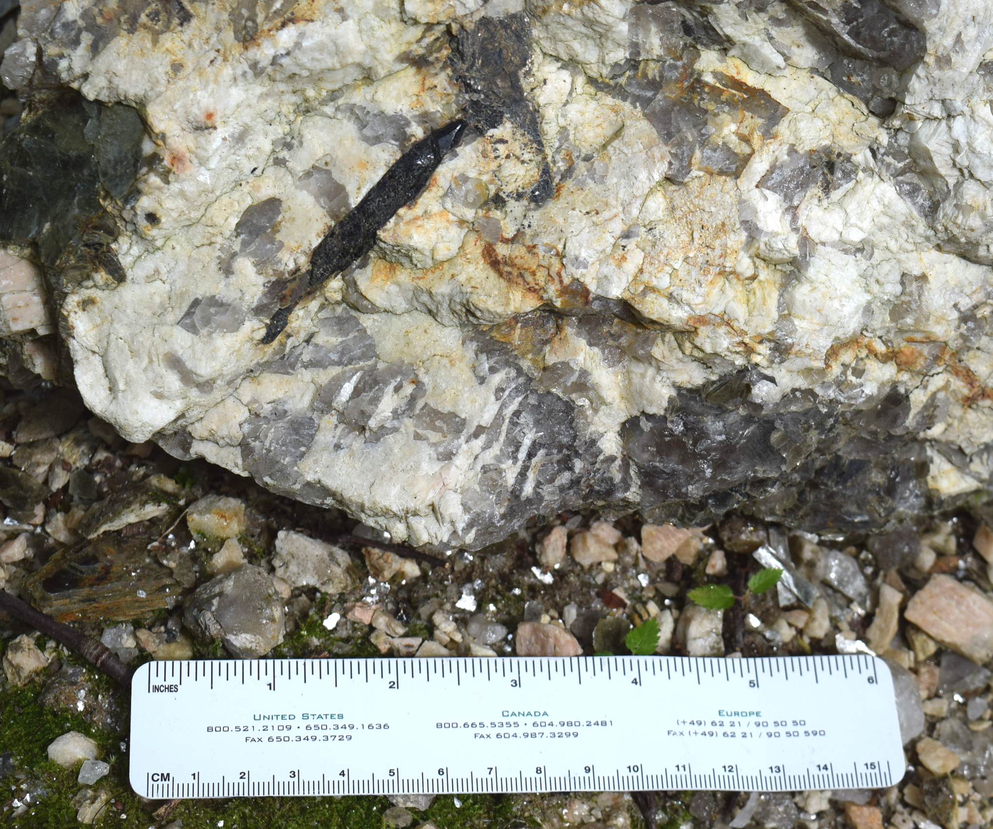 The picture shows a Pegmatite rock and a scale bar on the forest floor. The rock reveals a long Tourmaline Crystal on the surface. The picture was taken in the Collis P. Huntington State Park, close to Redding, Connecticut. Coordinates: 41°21'17.6"N 73°21'02.2"W